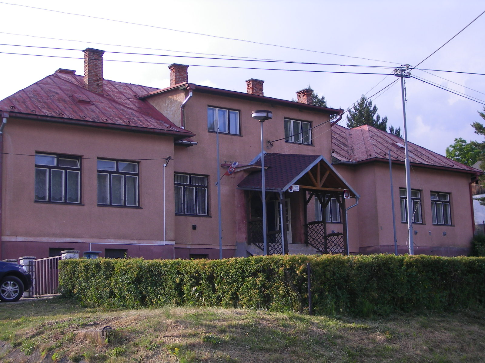 Ratkovo - town hall